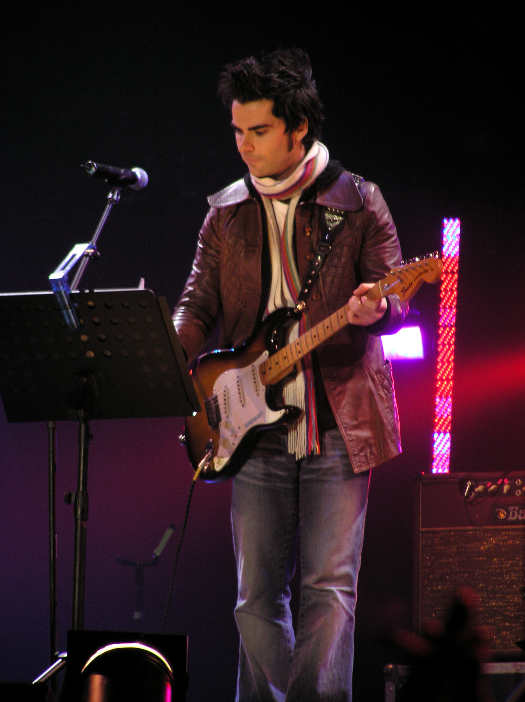 Kelly Jones performs a solo set at the Tsunami Relief Cardiff concert in January 2005